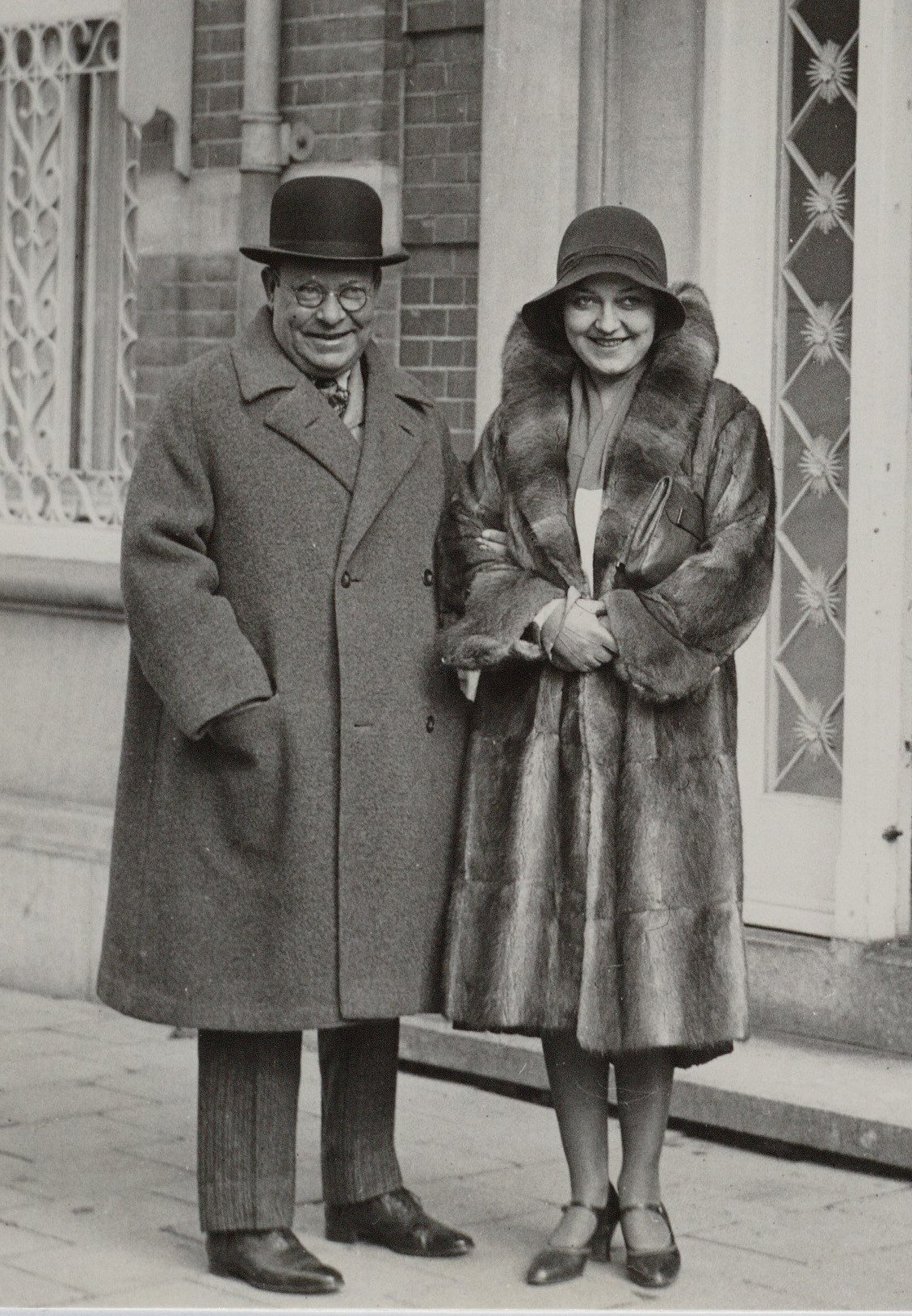 Nap de la Mar und seine Tochter Fien de la Mar, 1930, vor der Boerhave Klinik in Amsterdam